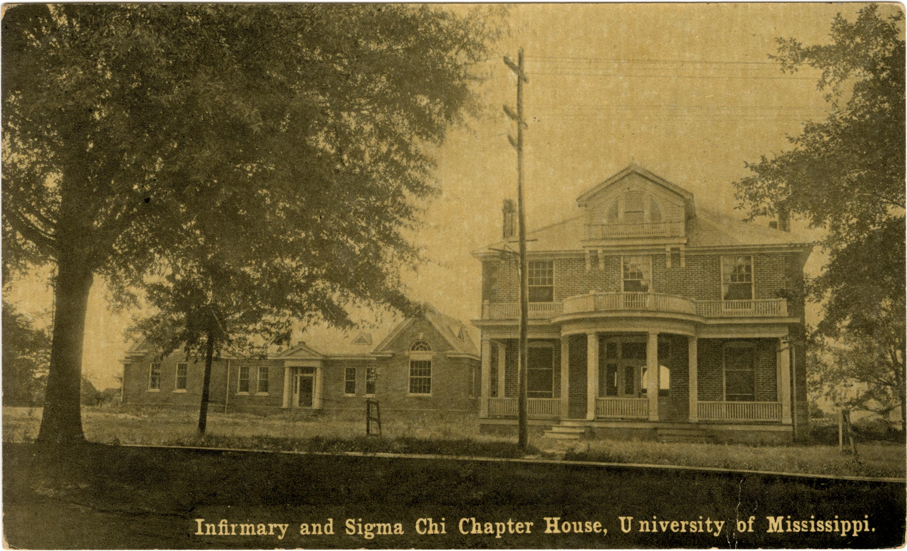 Collection: Cooper Postcard Collection Call number: PI/1992.0001 System ID: 89896. Link to the catalog Infirmary and Sigma Chi Chapter House, University of Mississippi. Please see our profile page for information on ordering. Scanned as tiff in 2009/06/26 by MDAH. Credit: Courtesy of the Mississippi Department of Archives and History